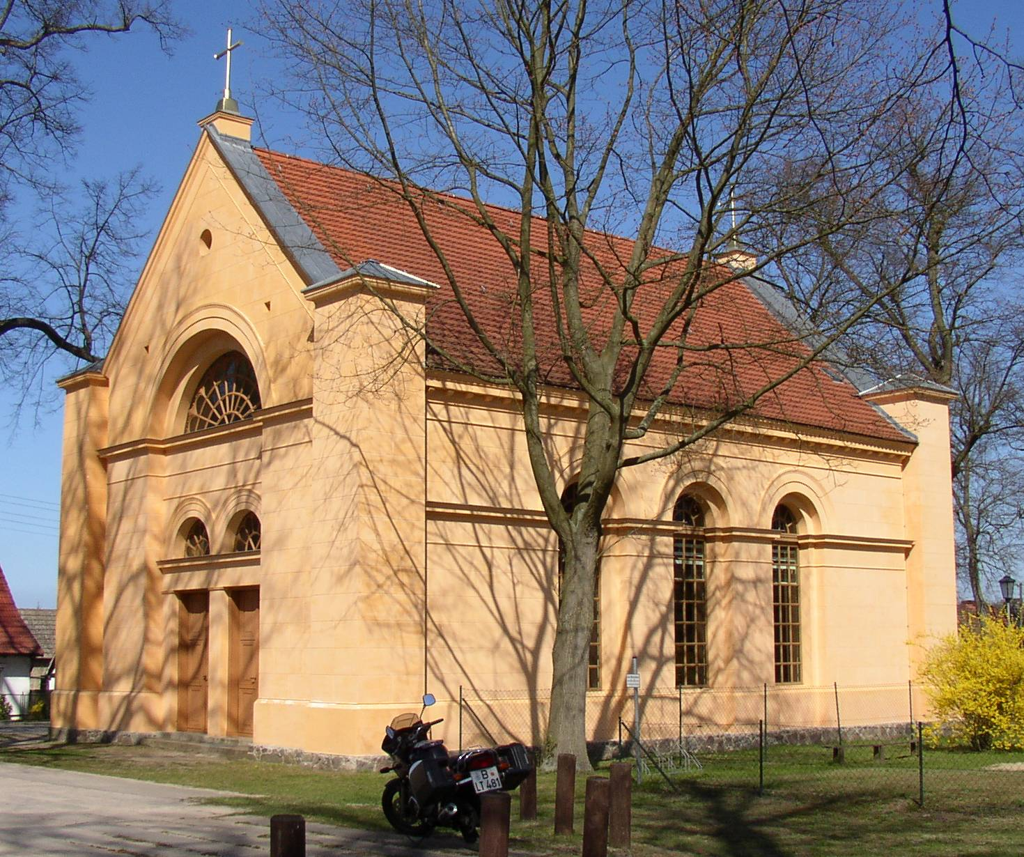 Church of Annenwalde (Templin-Densow) in Brandenburg, Germany